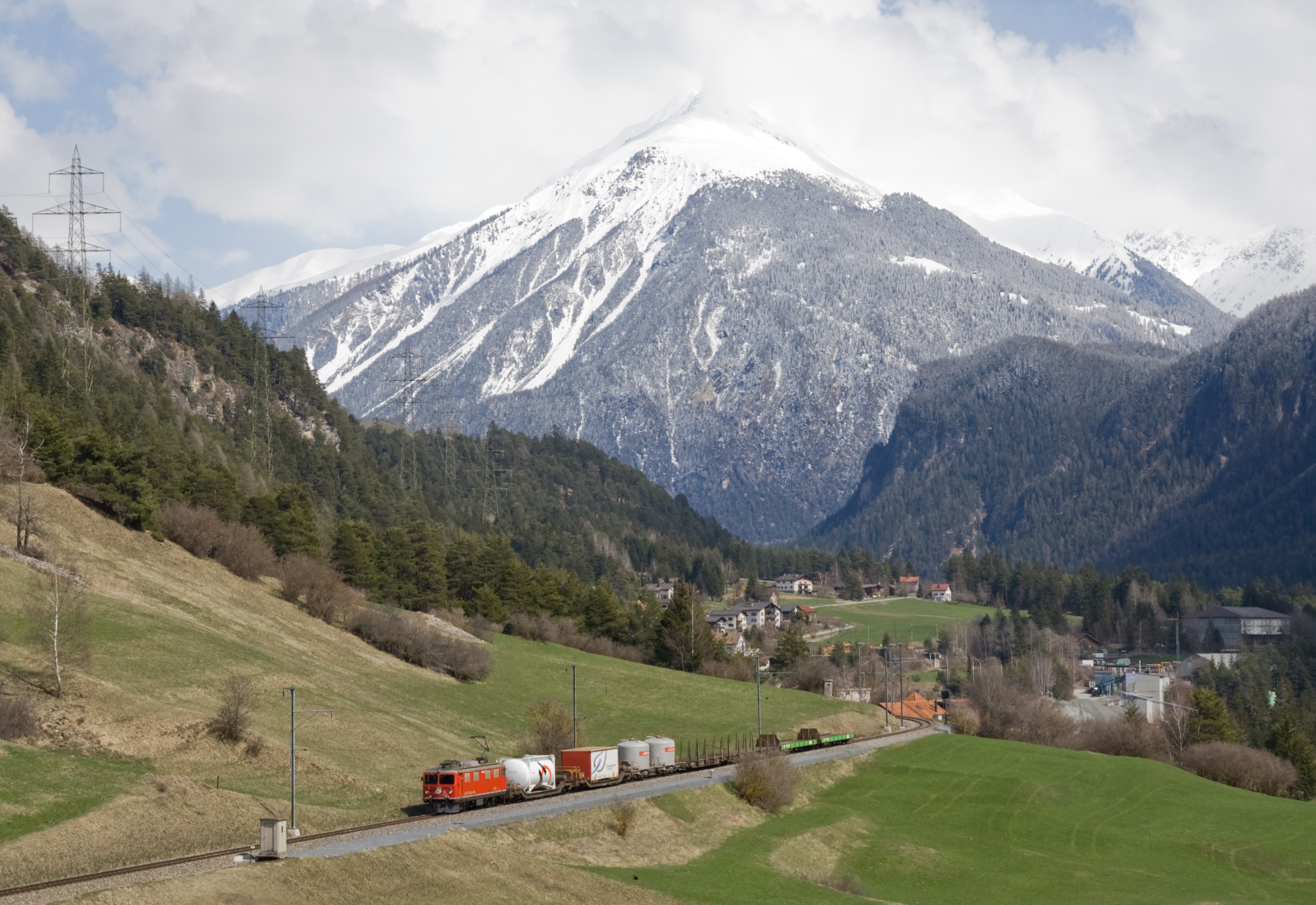 RhB Ge 4/4 I locomotive with a freight train between Tiefencastel and Surava